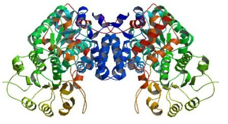 EC 1.1.1.40 - Malate dehydrogenase (oxaloacetate-decarboxylating) (NADP+)